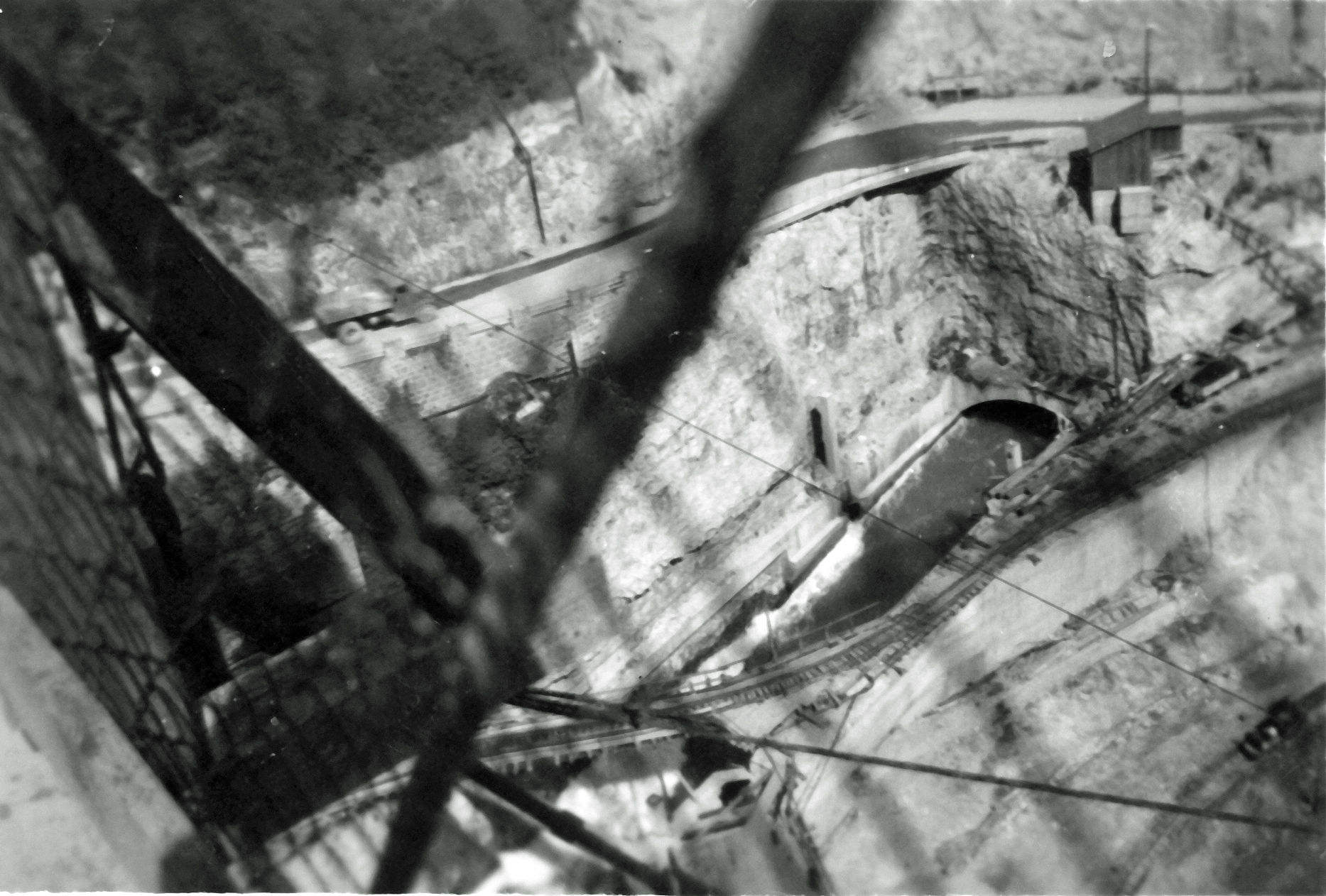 View of the exit of the temporary right bank deviation from the temporary footbridge